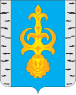 Coat of Arms of Penzensky rayon (Penza oblast)